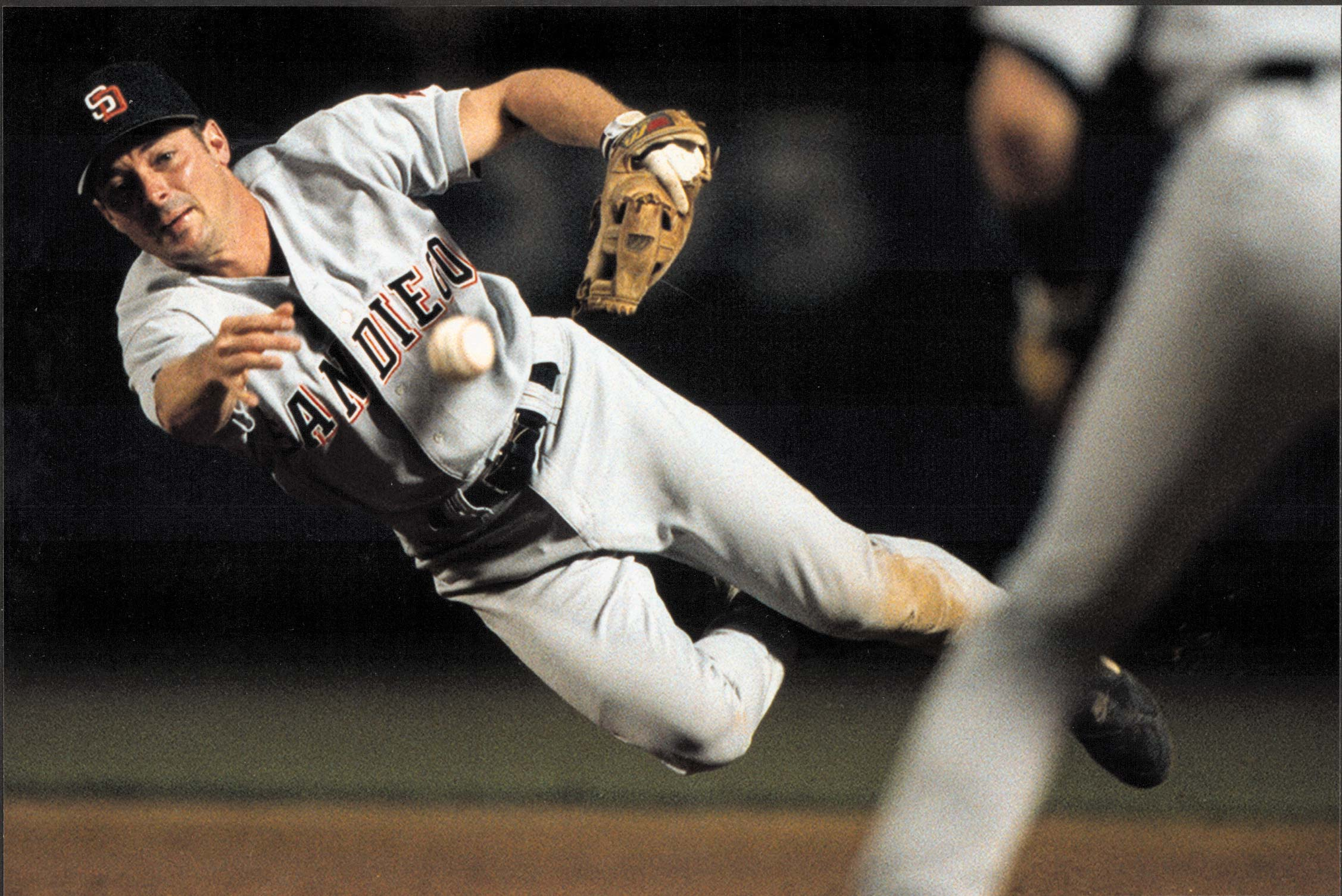 Second Place Sports 'Out' by Petty Officer 1st Class Stephen Batiz, U.S. Navy. San Diego Padres second baseman Jody Reed throws out a runner at first base.